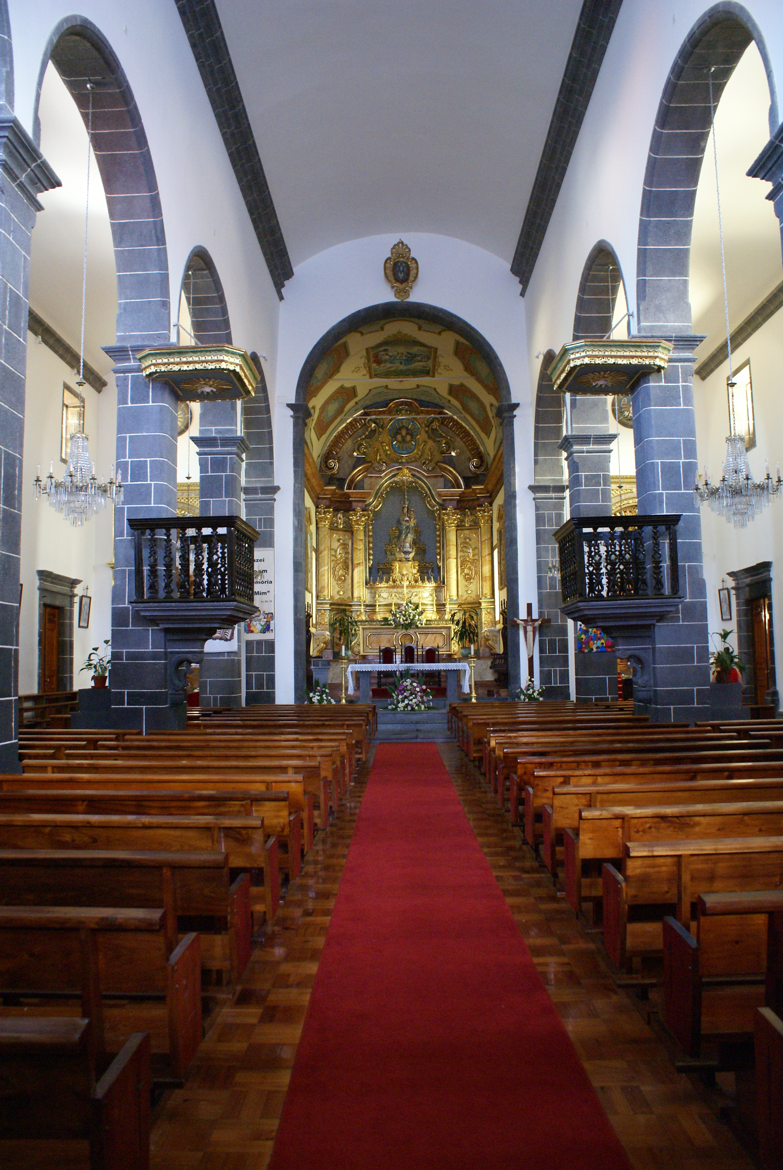 Nave of the Church of Nossa Senhora da Apresentação, Capelas, Ponta Delgada, São Miguel (Azores), Portugal